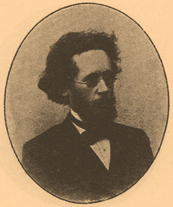 Illustration from Brockhaus and Efron Encyclopedic Dictionary (1890—1907)